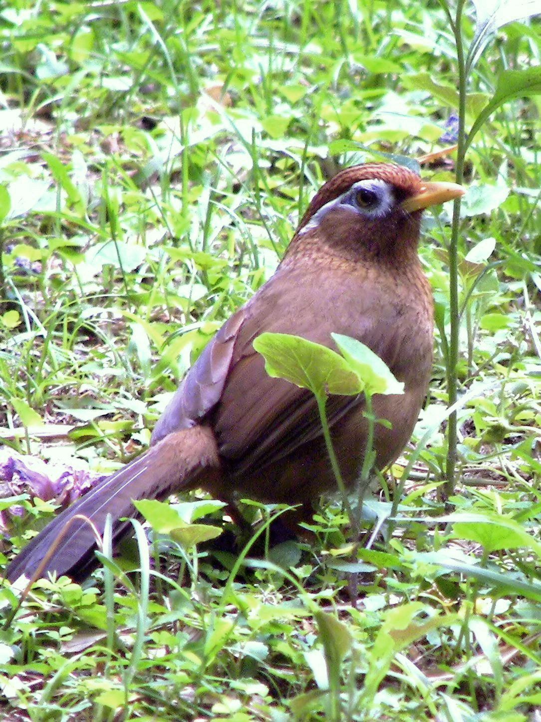 Chinese Hwamei, Garrulax canorus Original description: Saw at park area. Got a video as well.